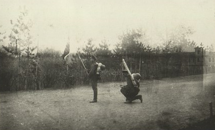 Bulgaria